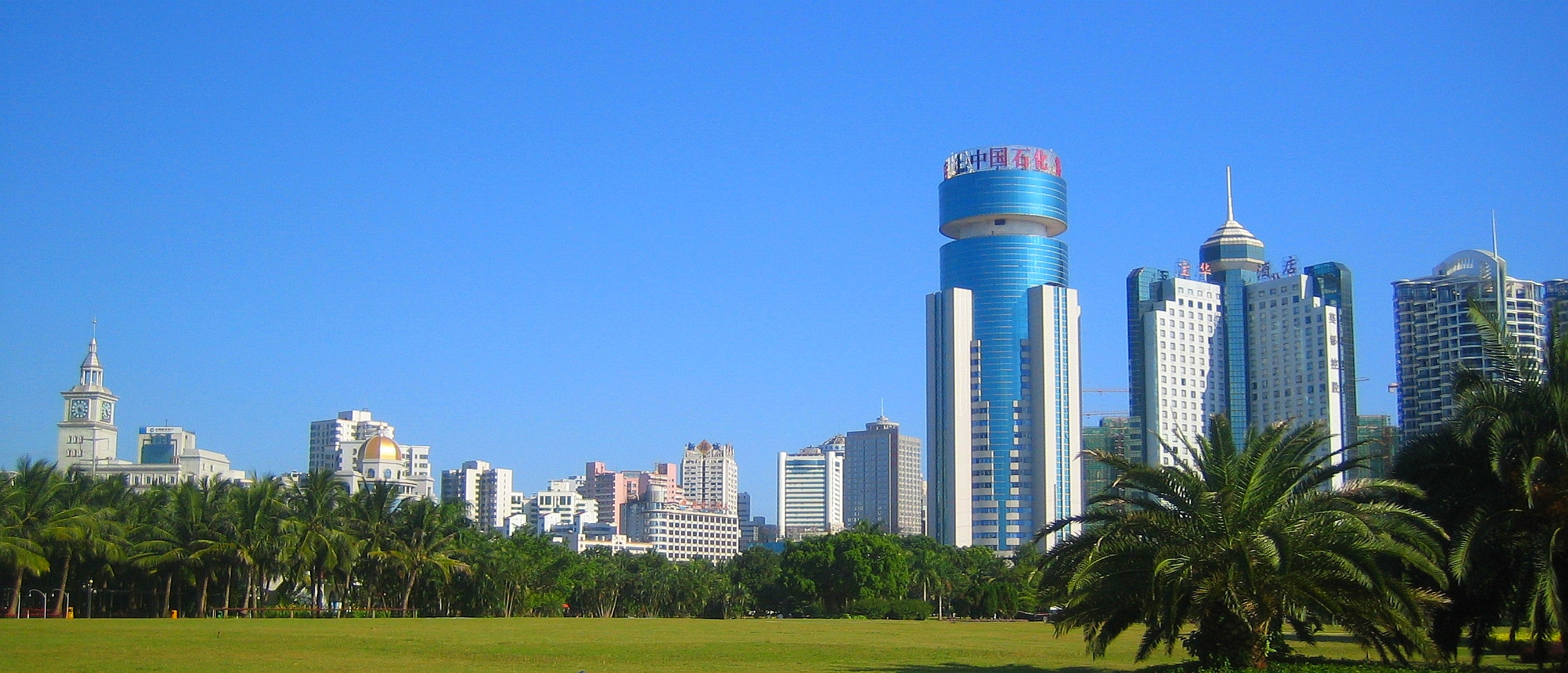 Haikou skyline